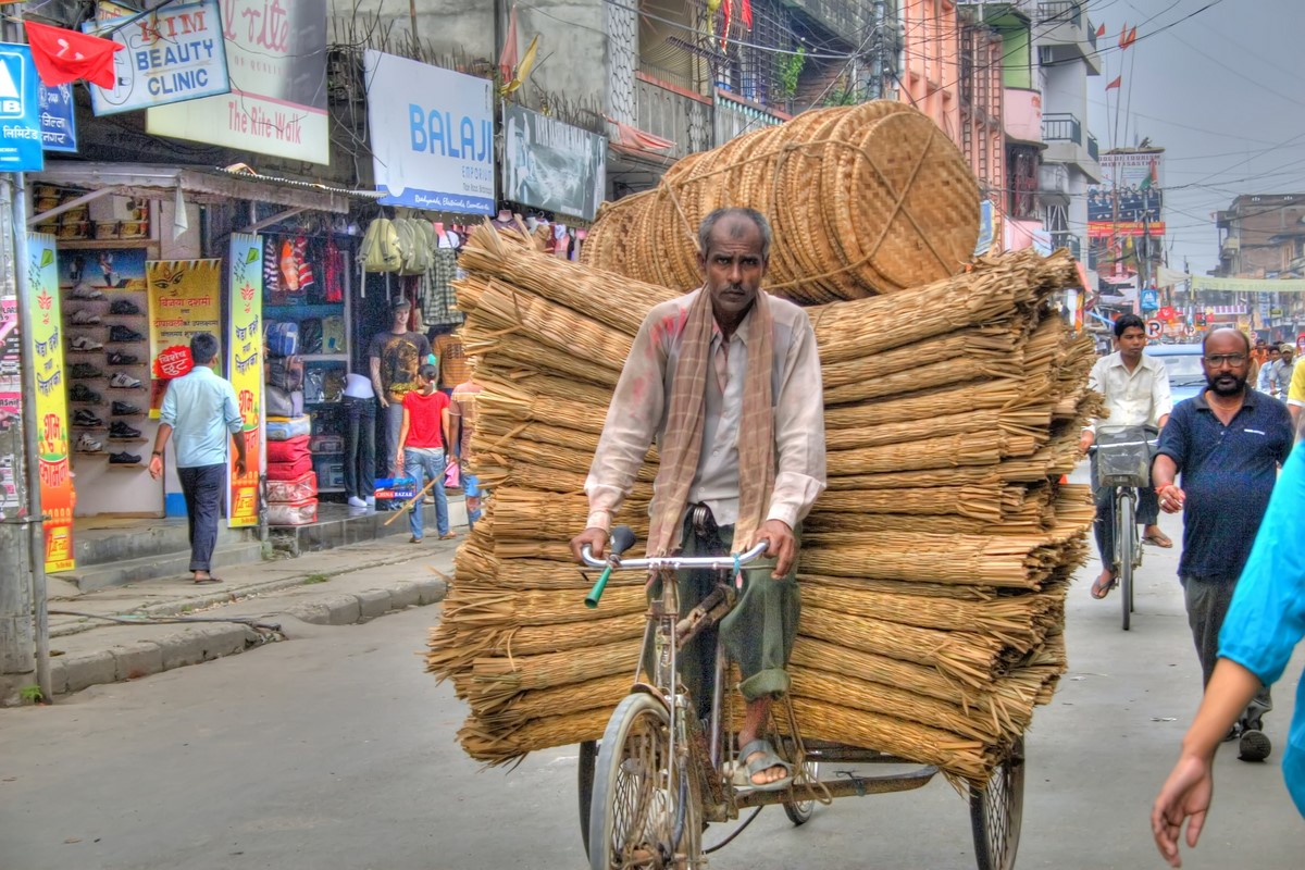 Delivery in Biratnagar (Nepal).